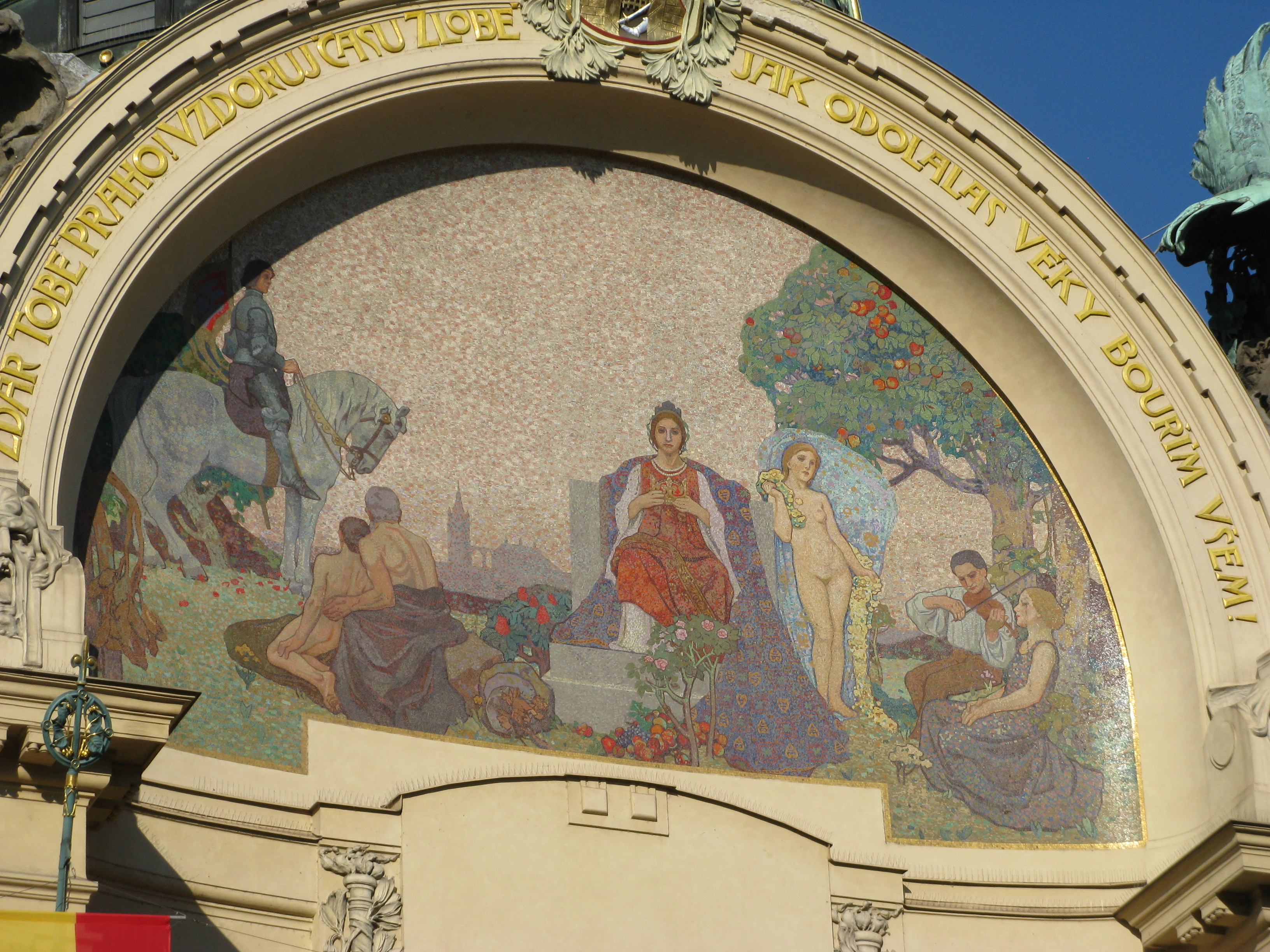 Municipal House (Prague). Mosaic named Hold Praze (Homage to Prague) by Karel Špillar.